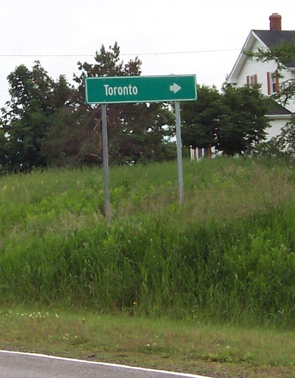 Direction sign for Toronto, Prince Edward Island located on Route 13 southbound in Mayfield, Lot 23, Grenville Parish, Queens County, Prince Edward Island, Canada